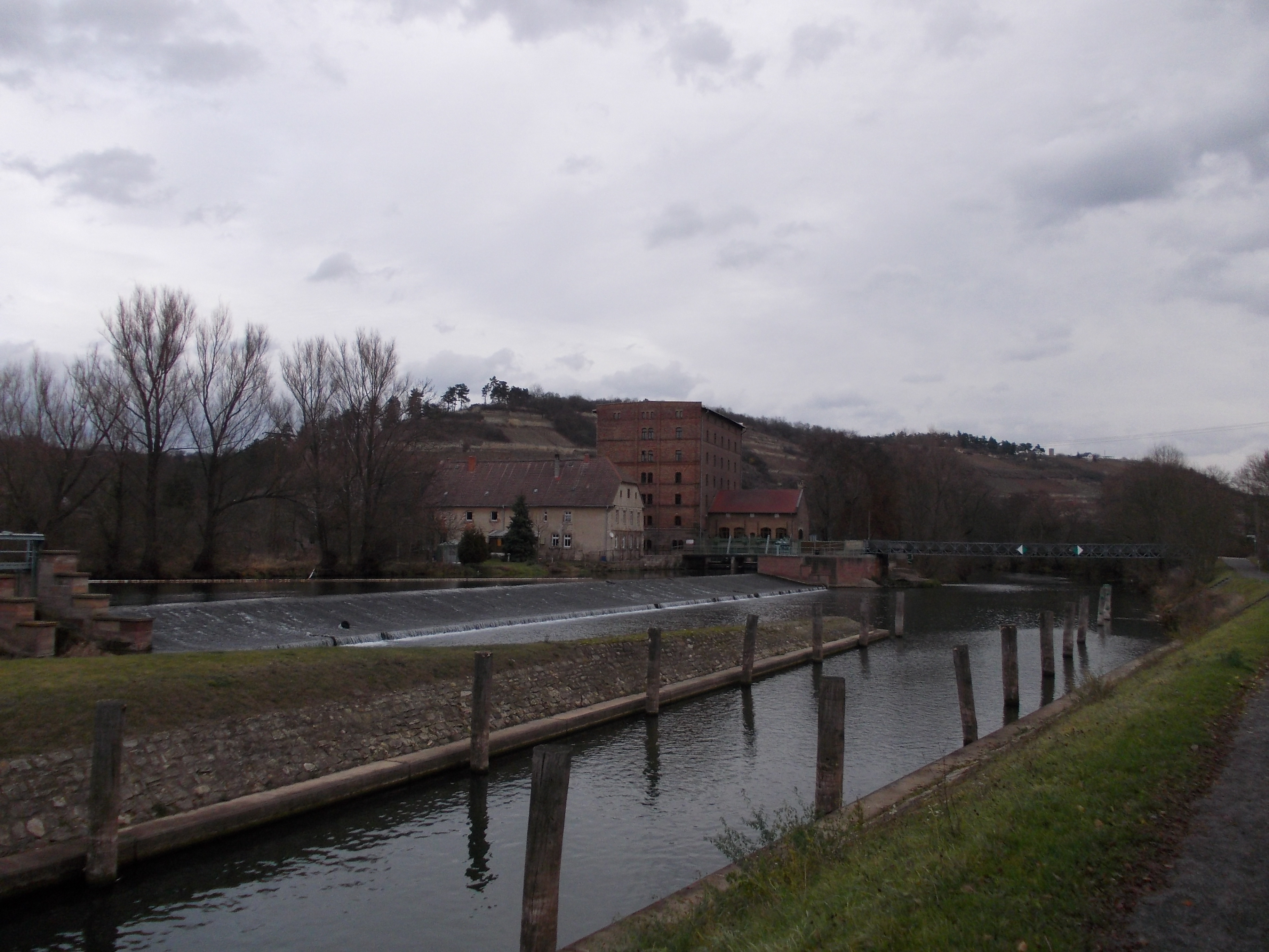 Zeddenbach Mill and weir on the Unstrut river near Freyburg/Unstrut (district of Burgenlandkreis, Saxony-Anhalt)